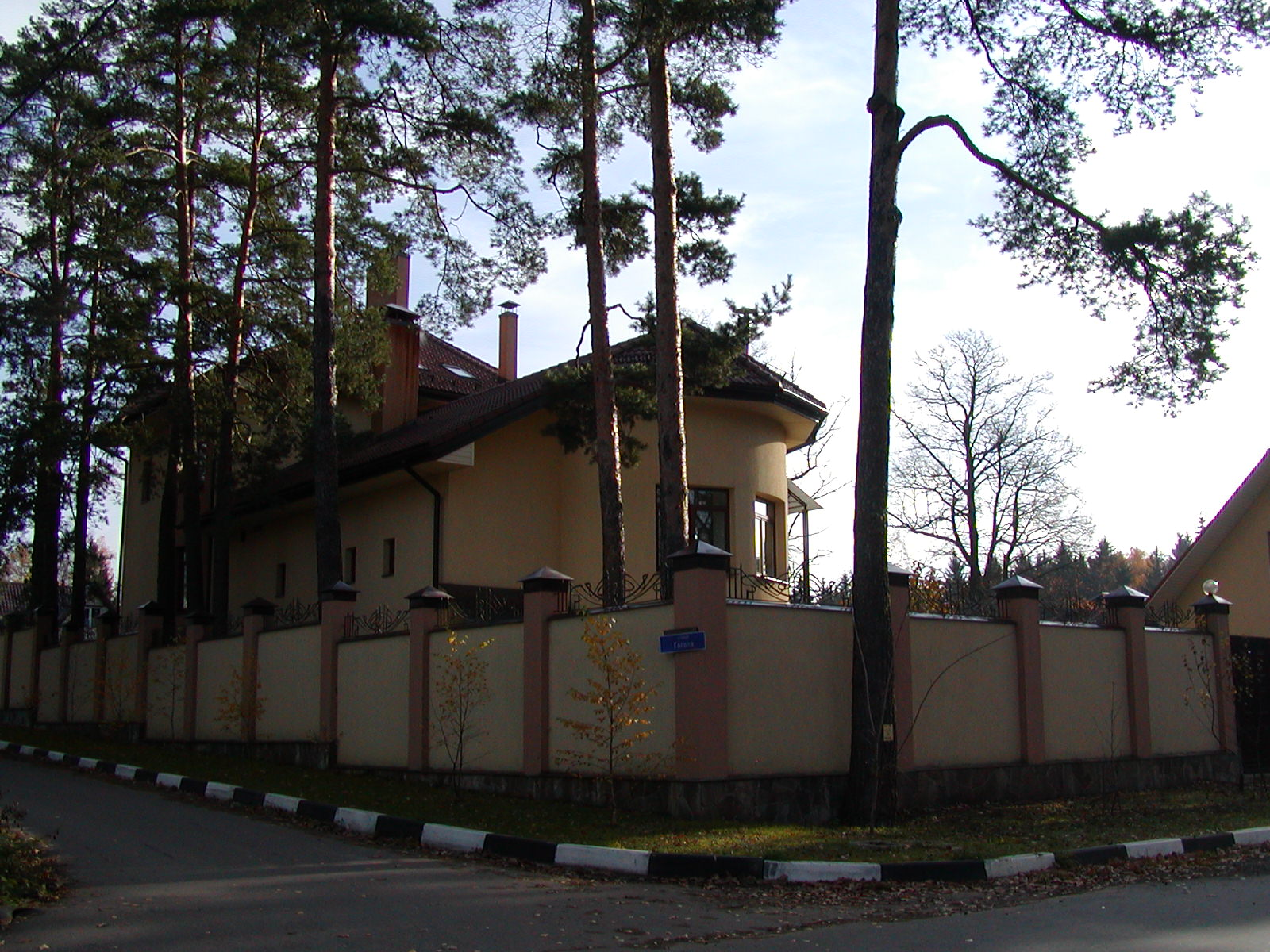 Corner house on crossing of Gogol street and Literaturny passage in Ababurovo.